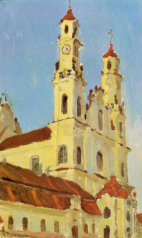 Painting of Ferdynand Ruszczyc.